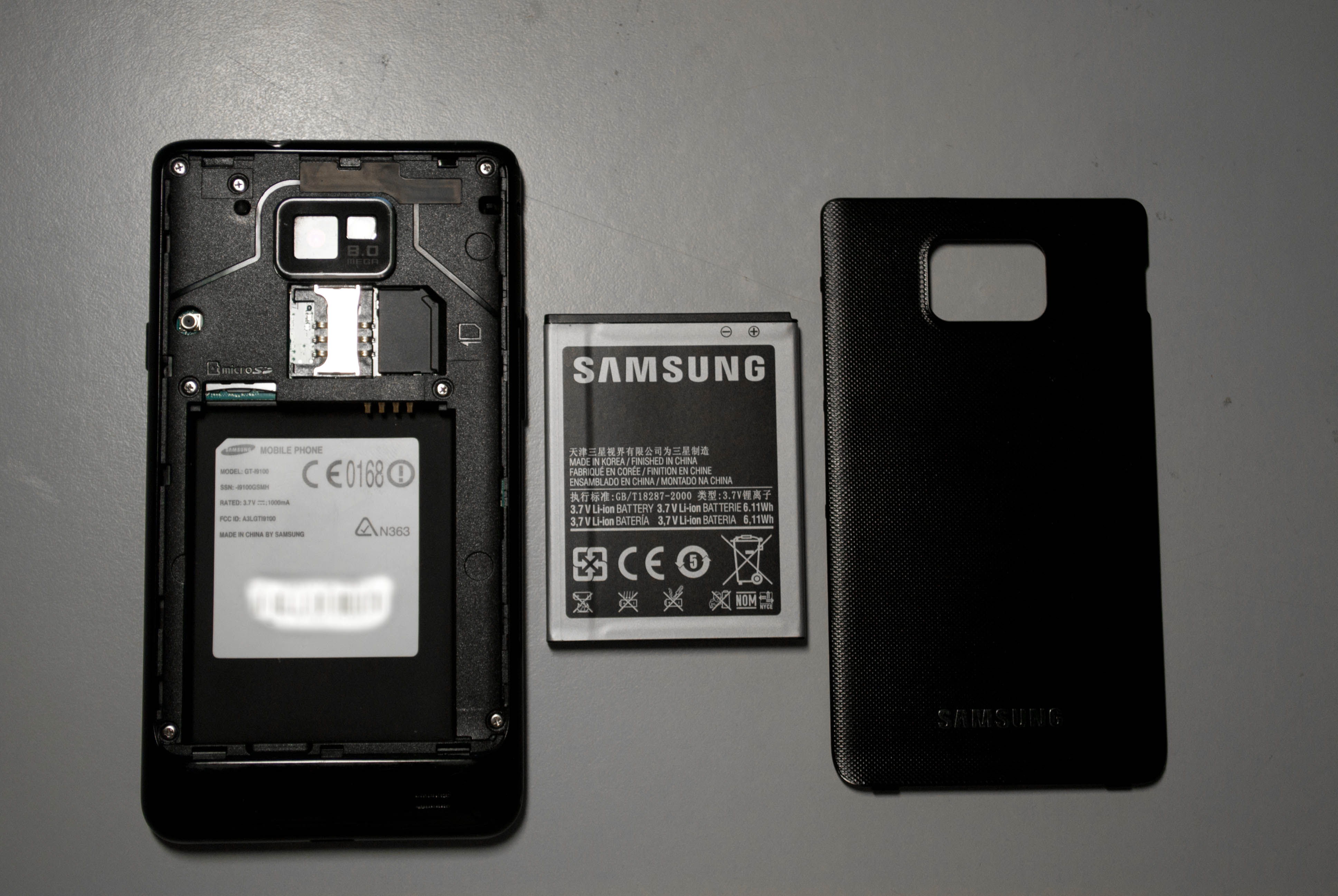 Dismantled Galaxy S2 (SII) parts which includes from left to right, handset, battery and battery cover